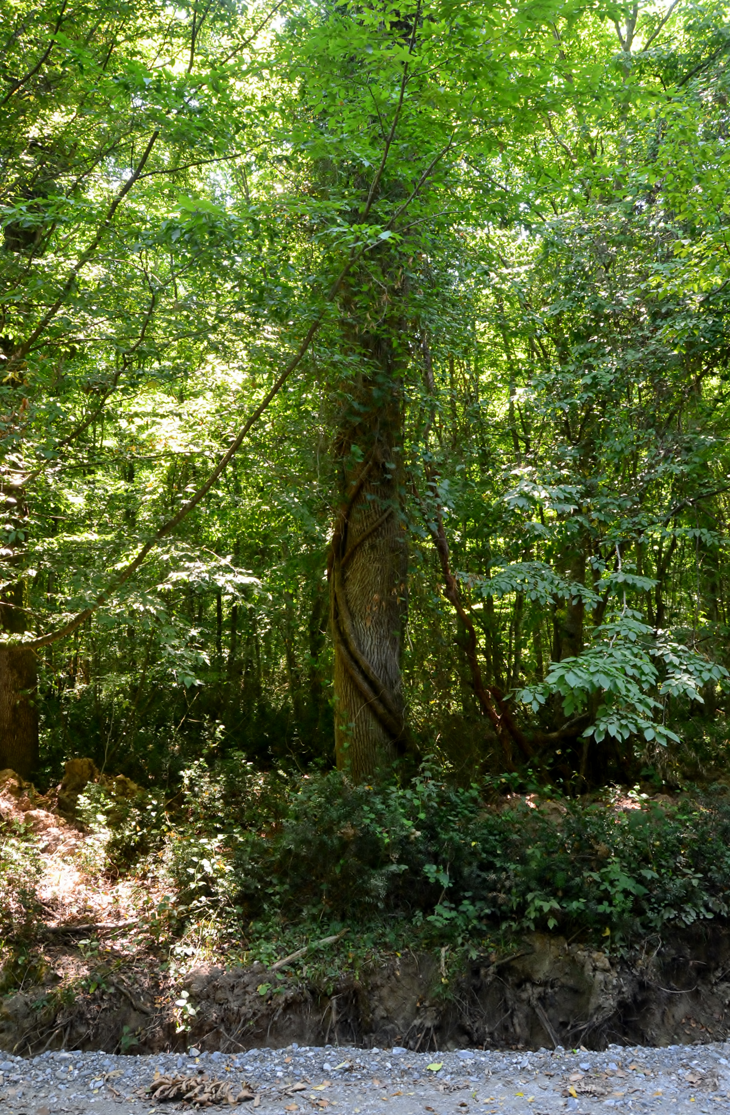 An ivy-climbed tree in the İğneada Floodplain Forests National Park in İğneada, Kırklareli Province, Turkey